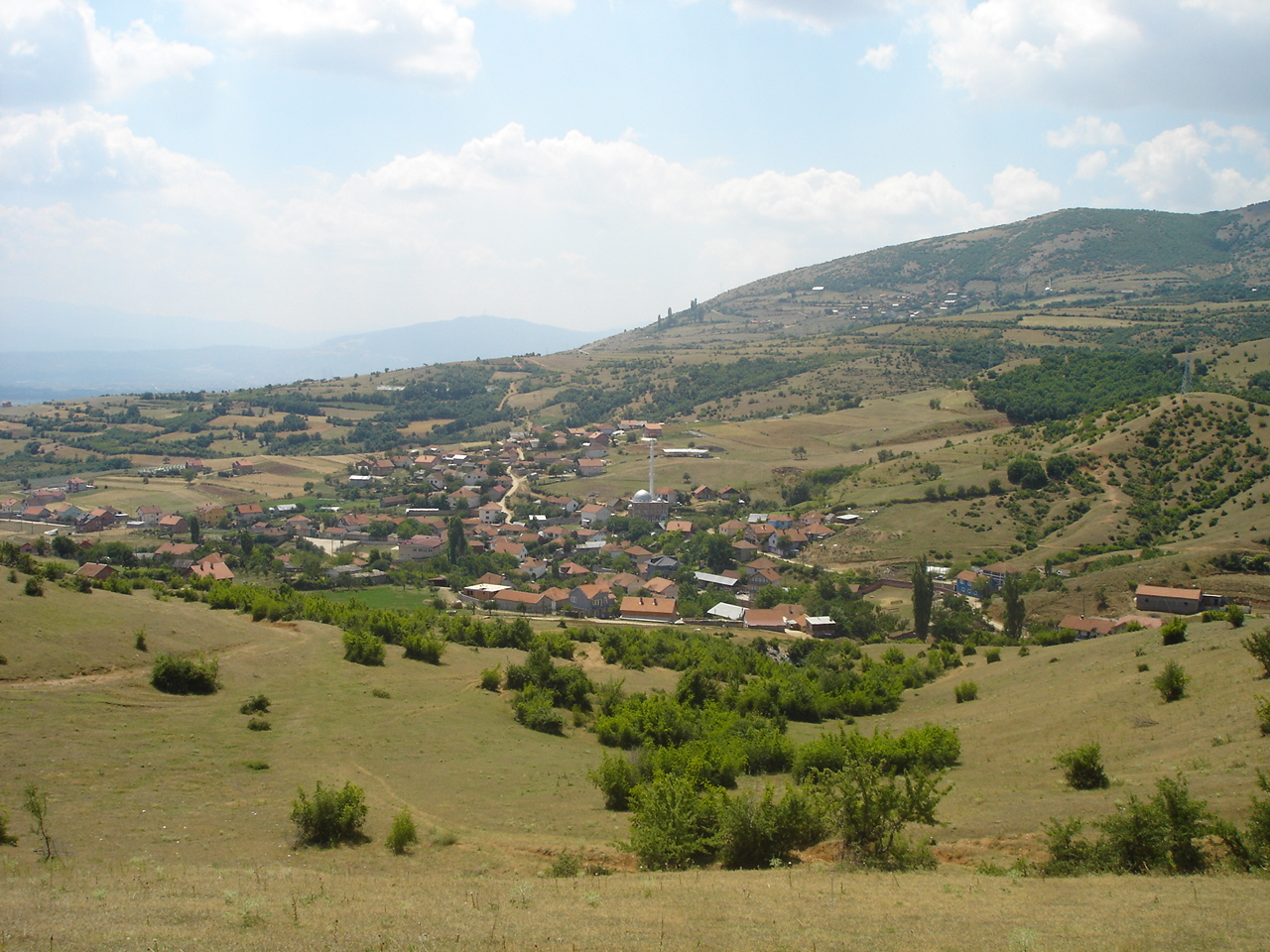 village of Orlanci in Aracinovo Municipality near Skopje, Macedonia